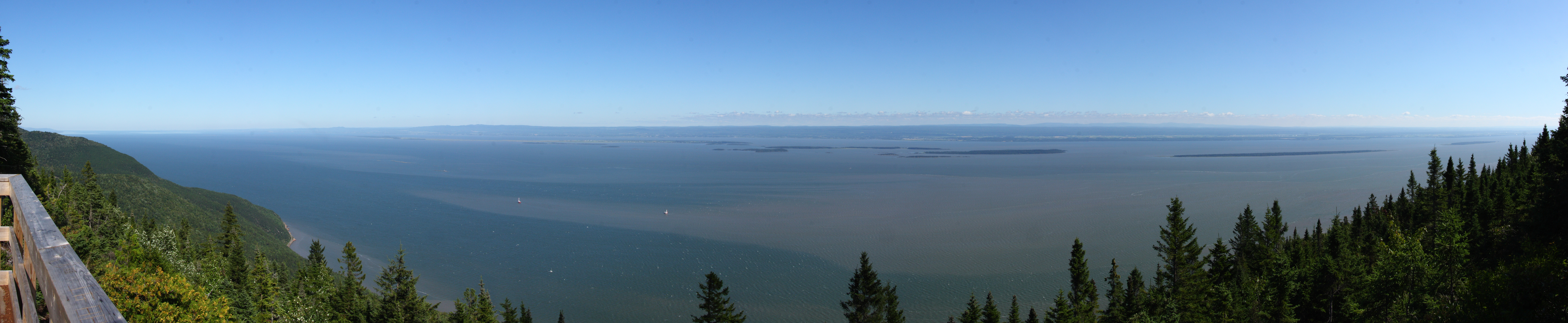 Isle-aux-Grues archipelago from La Cime lookout, Cap Tourmente National Wildlife Area, Quebec, Canada